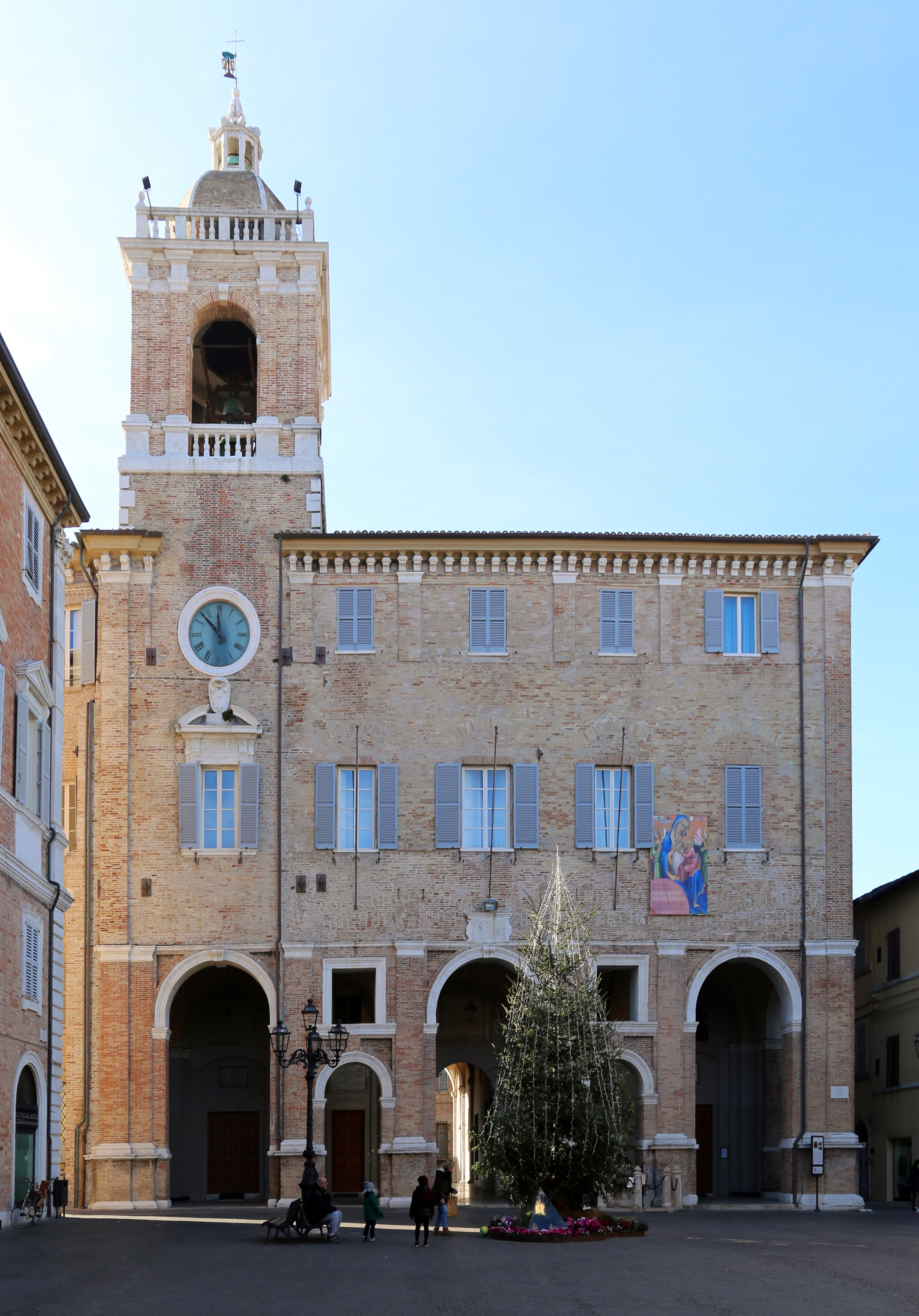 Senigallia